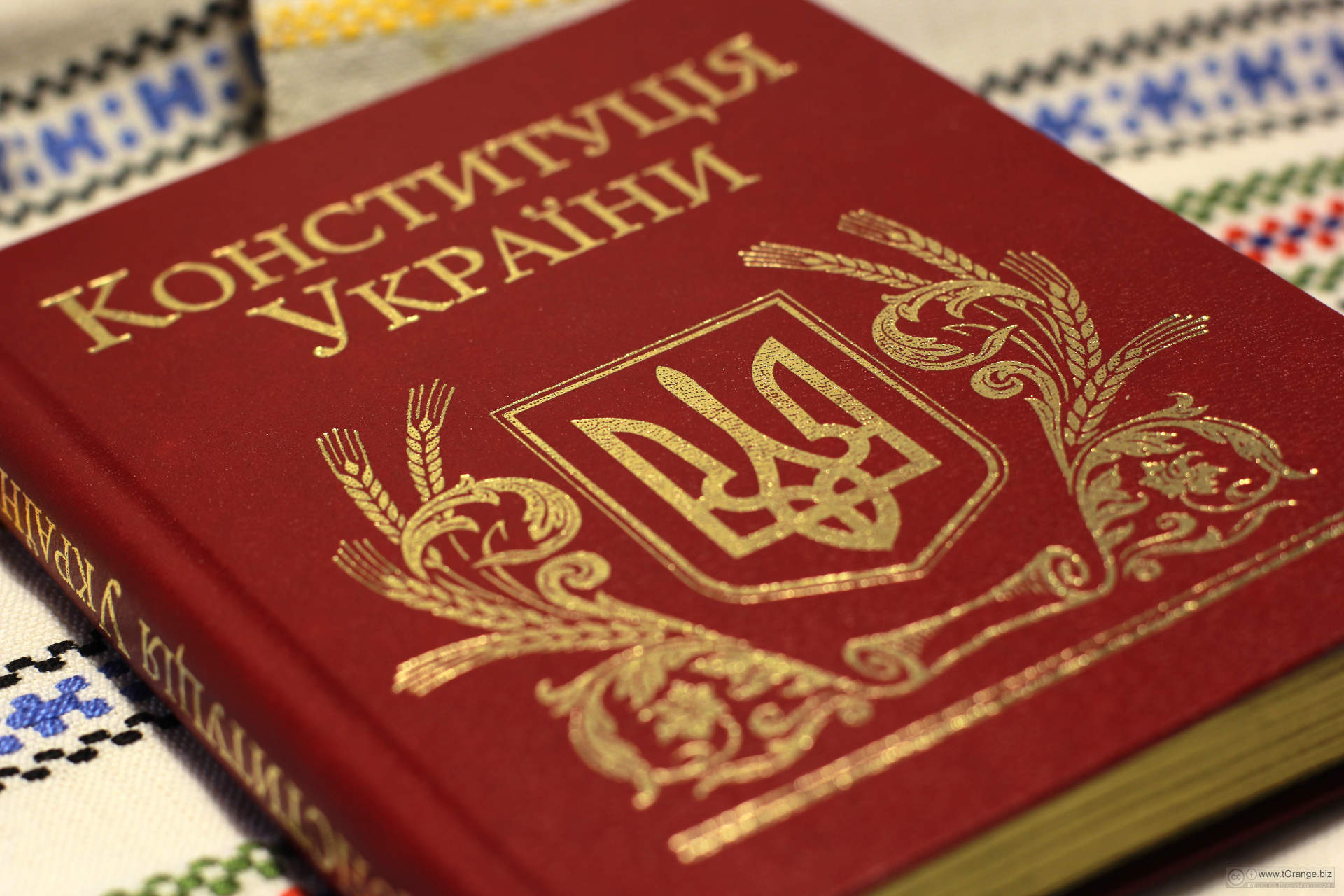 Constitution of Ukraine